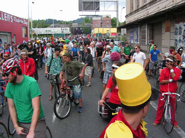 Community bike ride at the 2007 Tour de Fat in Portland, Oregon. Category:Images of Portland Summary Community bike ride at the 2007 Tour de Fat in Portland, Oregon.